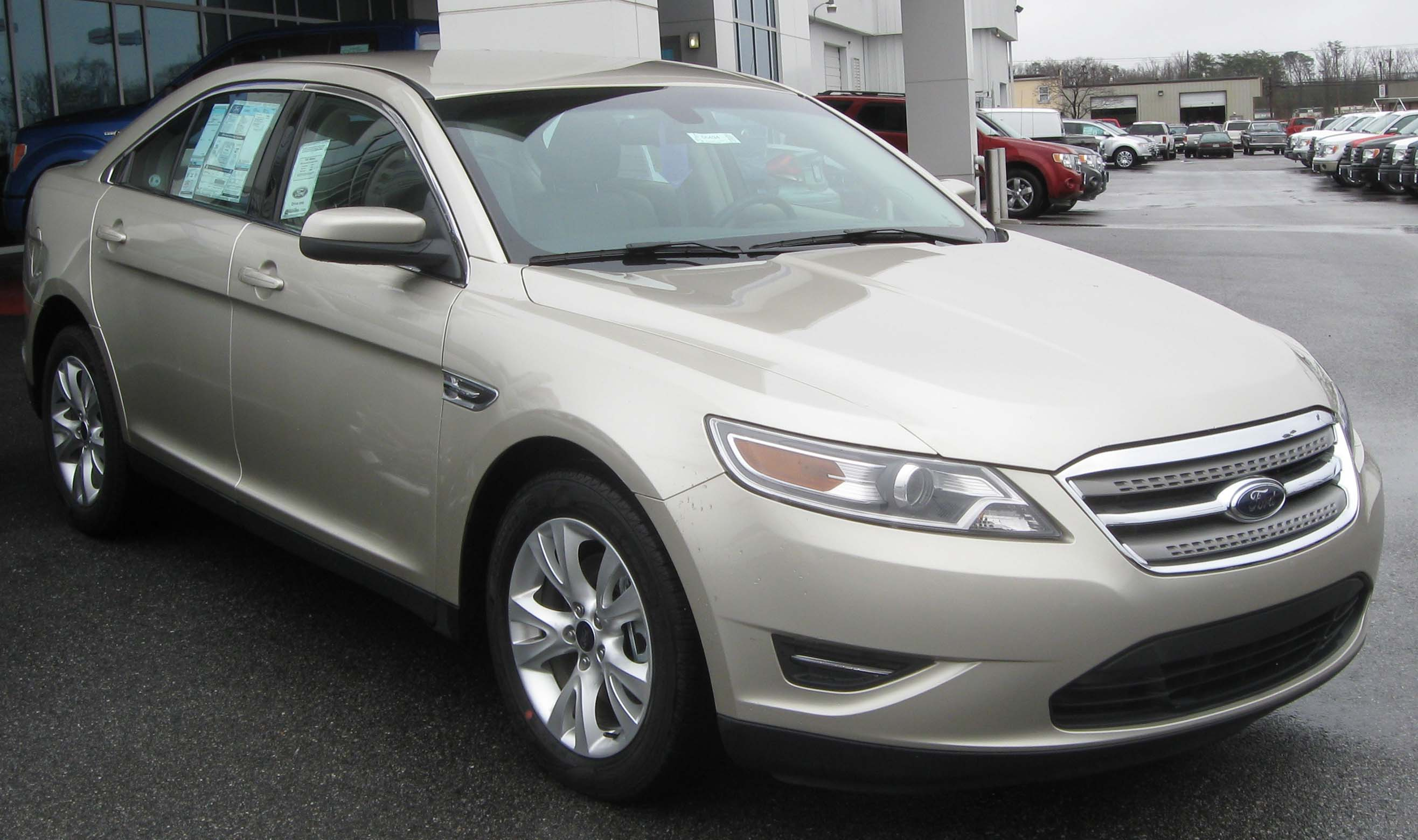 2010 Ford Taurus SEL photographed in Waldorf, Maryland, USA.